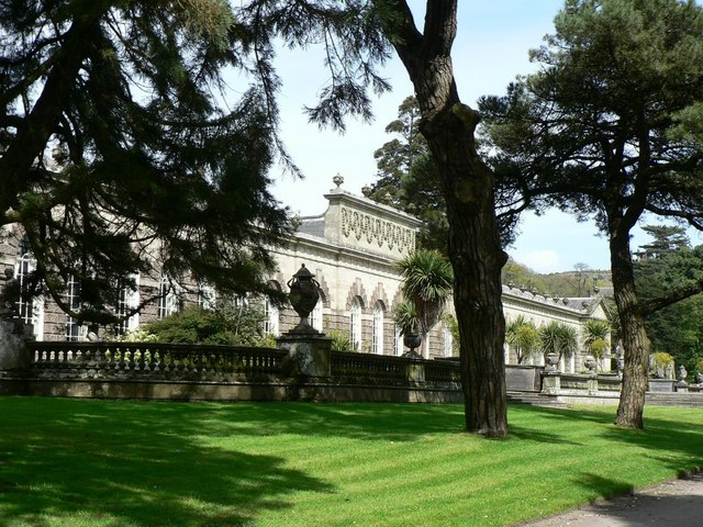 The Orangery, Margam Country Park